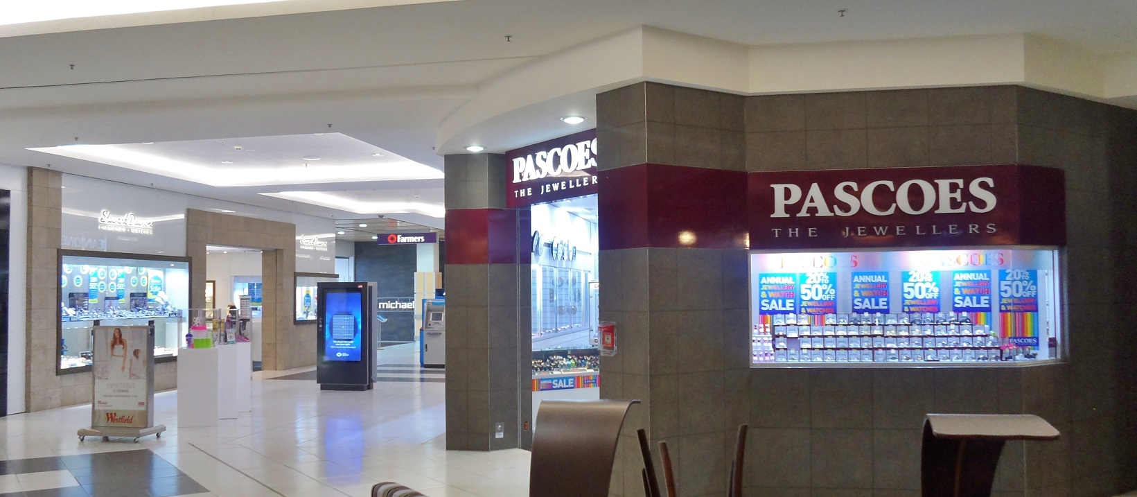 Queensgate branches of New Zealand jewellers Stewart Dawsons and Pascoes the Jewellers at Westfield Queensgate in Lower Hutt, Wellington region in 2015. Both owned by James Pascoe Group.